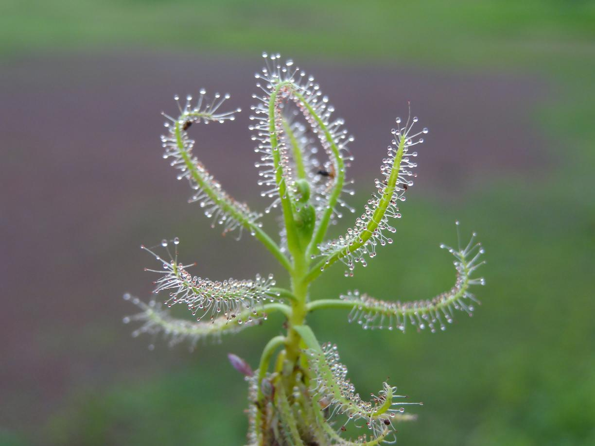 Drosera indica, Kumbla Kerala.